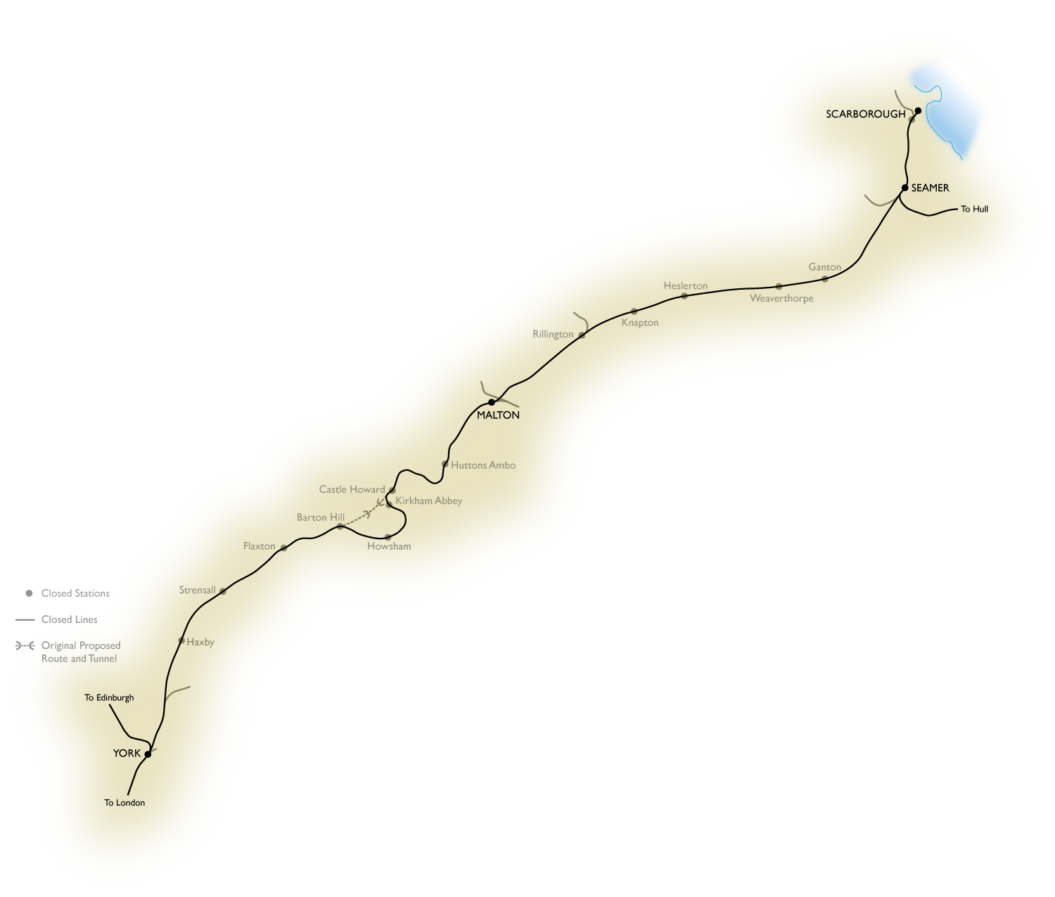 York to Scarborough railway line showing current and former stations